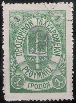 Stamp Russian mail on Crete